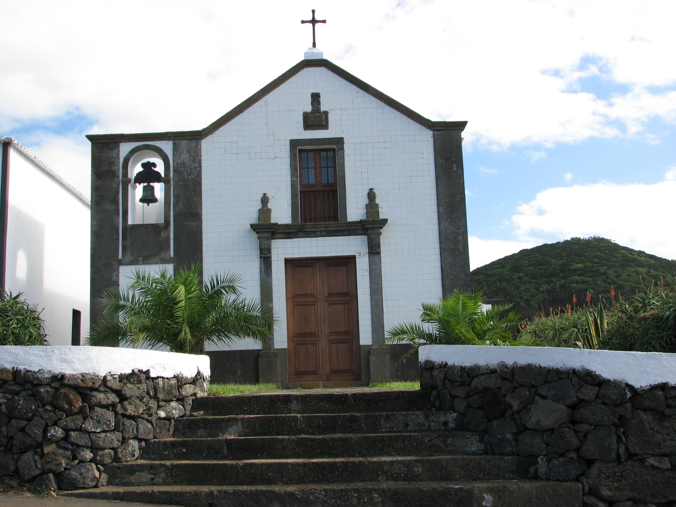 The chapel of Ajuda (Nossa Senhora da Ajuda), at Santa Bárbara, Terceira, Island, Azores.